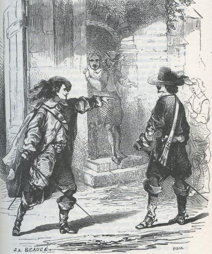 d'Artagnan is portrayed tangling with Count de Rochefort or the "Man from Meung", whose name was unbeknown to young Gascon: "There are people who laugh at a horse that would not dare to laugh at its master," cried the young emulator of the terrible Treville. "I do not often laugh, sir," replied the unknown, "as you may perceive by the air of my countenance; but I claim, nevertheless, the privilege of laughing when I please." "And I," cried d'Artagnan, "will allow no man to laugh when it displeases me!"